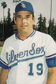 Professional baseball coach Alan Fowlkes